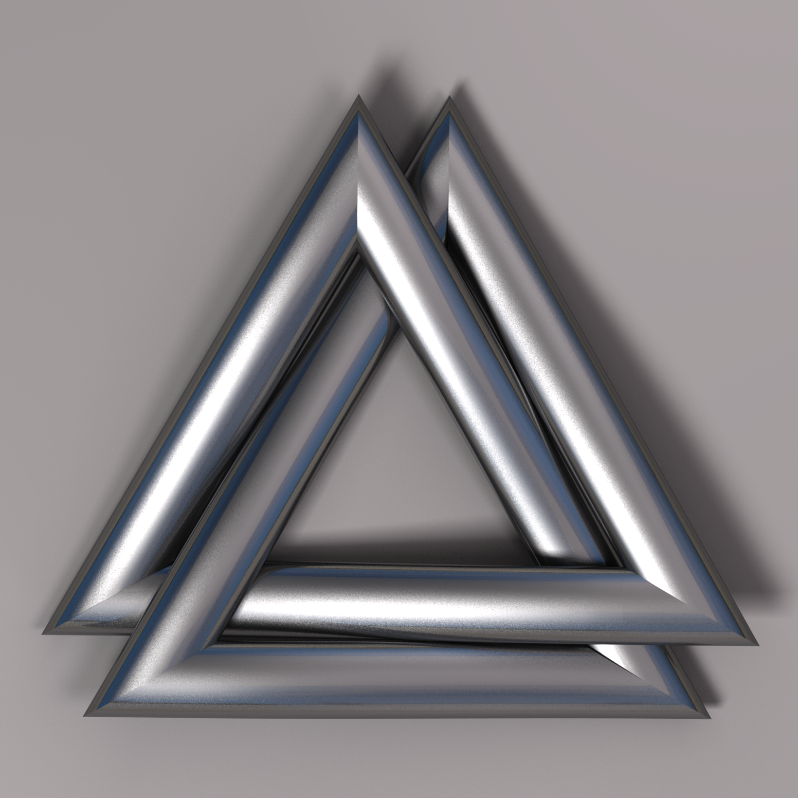 Cropped version of File:Trefoil valknut.png, a valknut in the form of a trefoil knot, with stick number six.